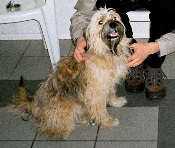 Catalonian shepherd, fawn coloured (one-year-old female Nefer, Warsaw, 2002).